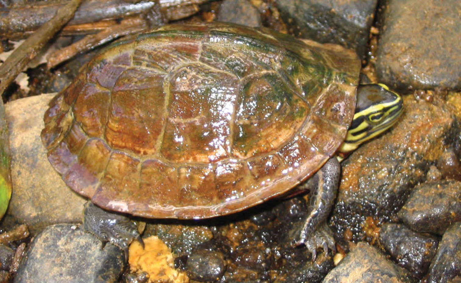 Cuora amboinensis amboinensis (ACD 3229, deposited in PNM) from Barangay Binatug. Photo: K. M. Hesed.